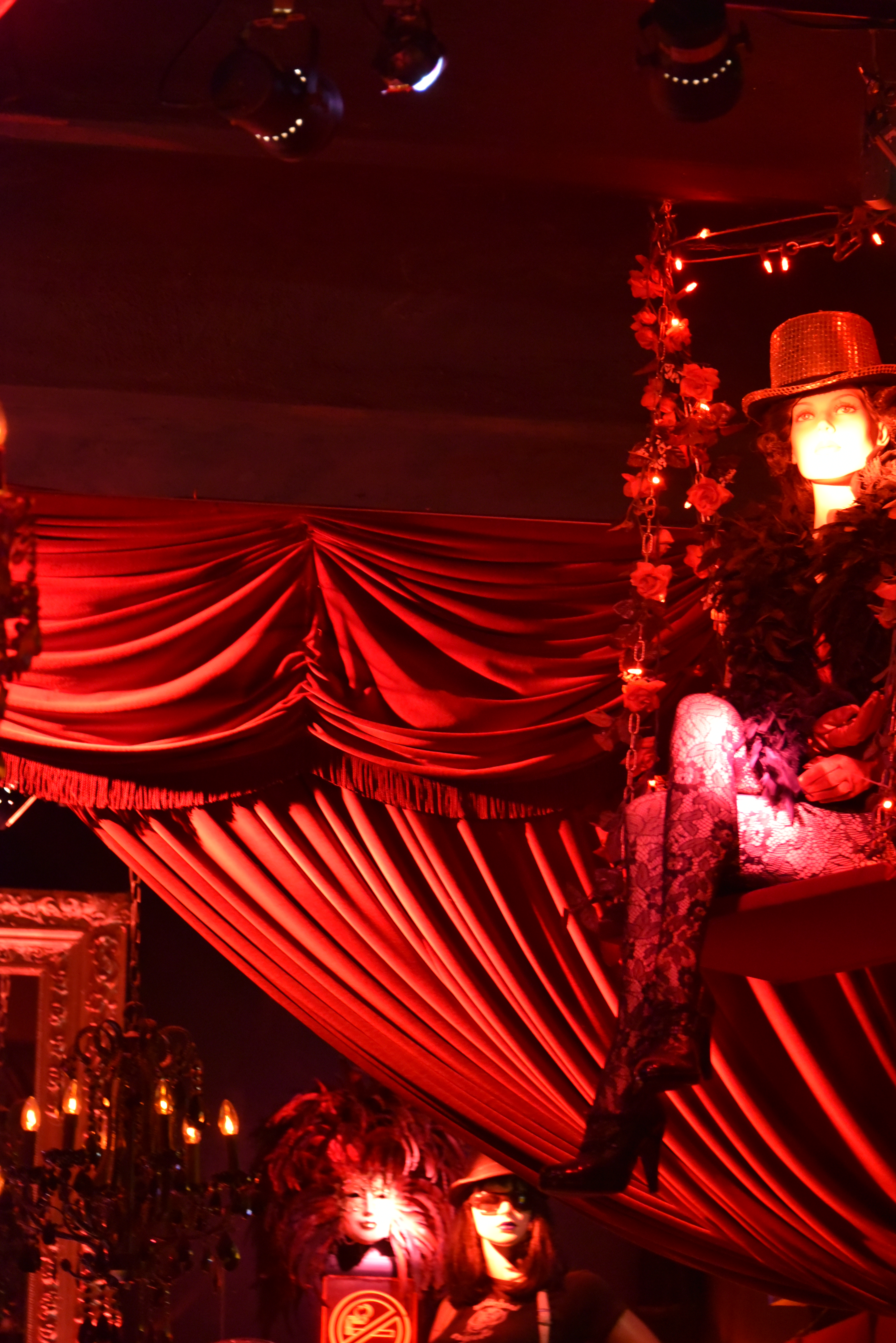 Interior of the Cabaret "Fledermaus" in Vienna